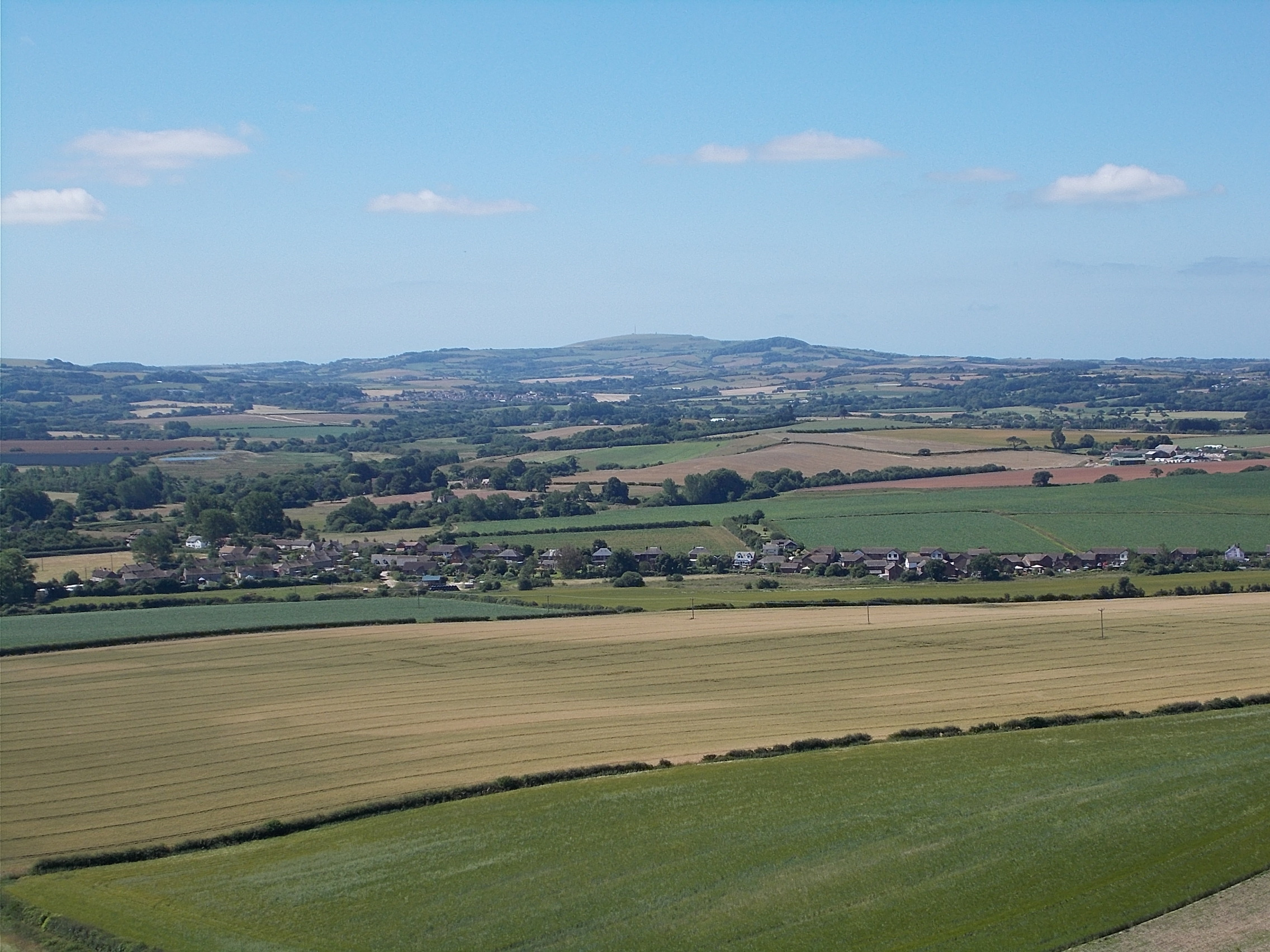 Arreton Valley, IW, UK. Arreton is the linear settlement nearest to the camera. View south-west from Arreton Down.